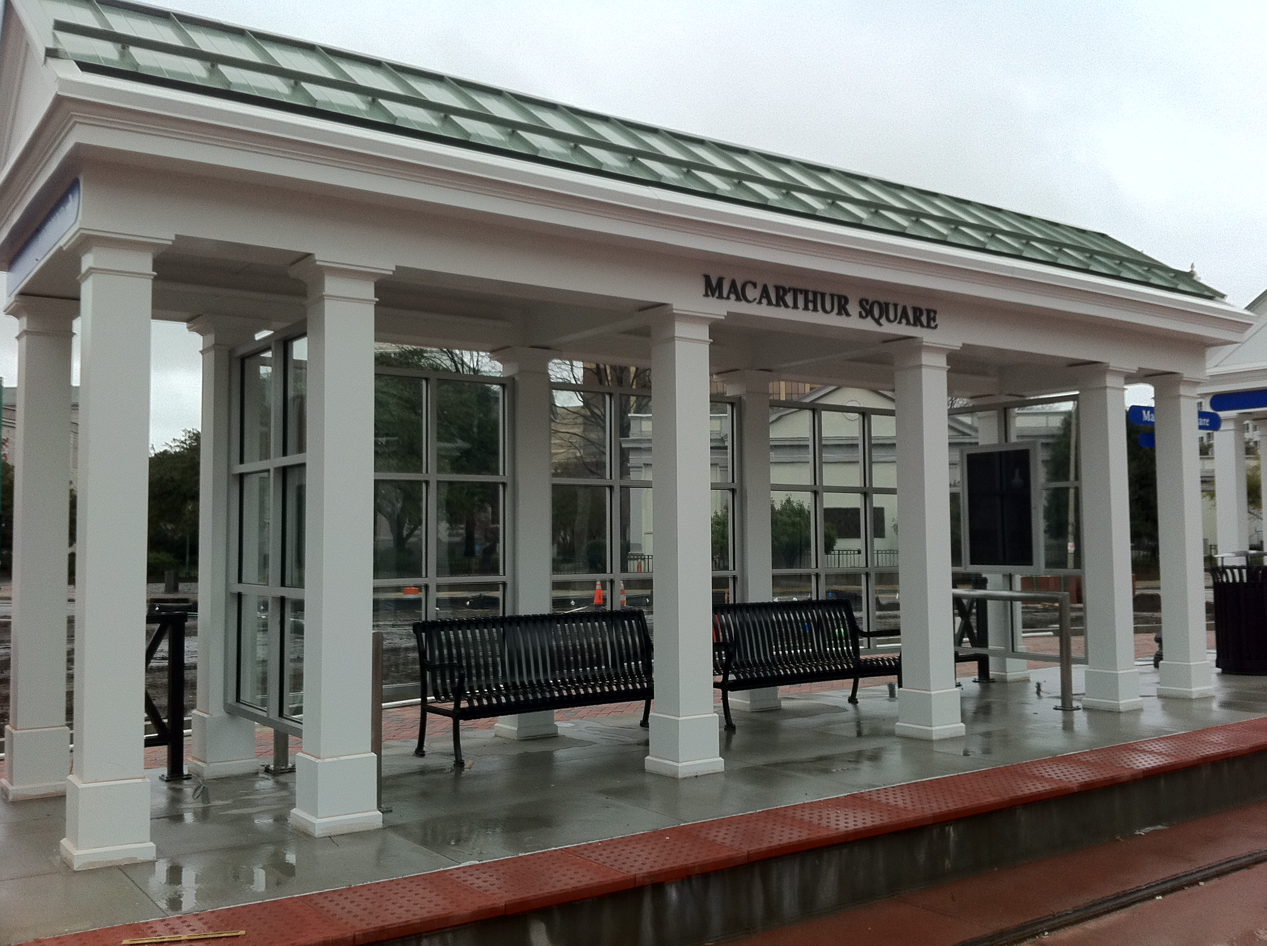 Passenger waiting area at the future MacArthur Square station on The Tide light rail in Norfolk. The southern architectural stylings give it a nice local flavour. Opening date is sometime in 2011, delayed from January 2010.